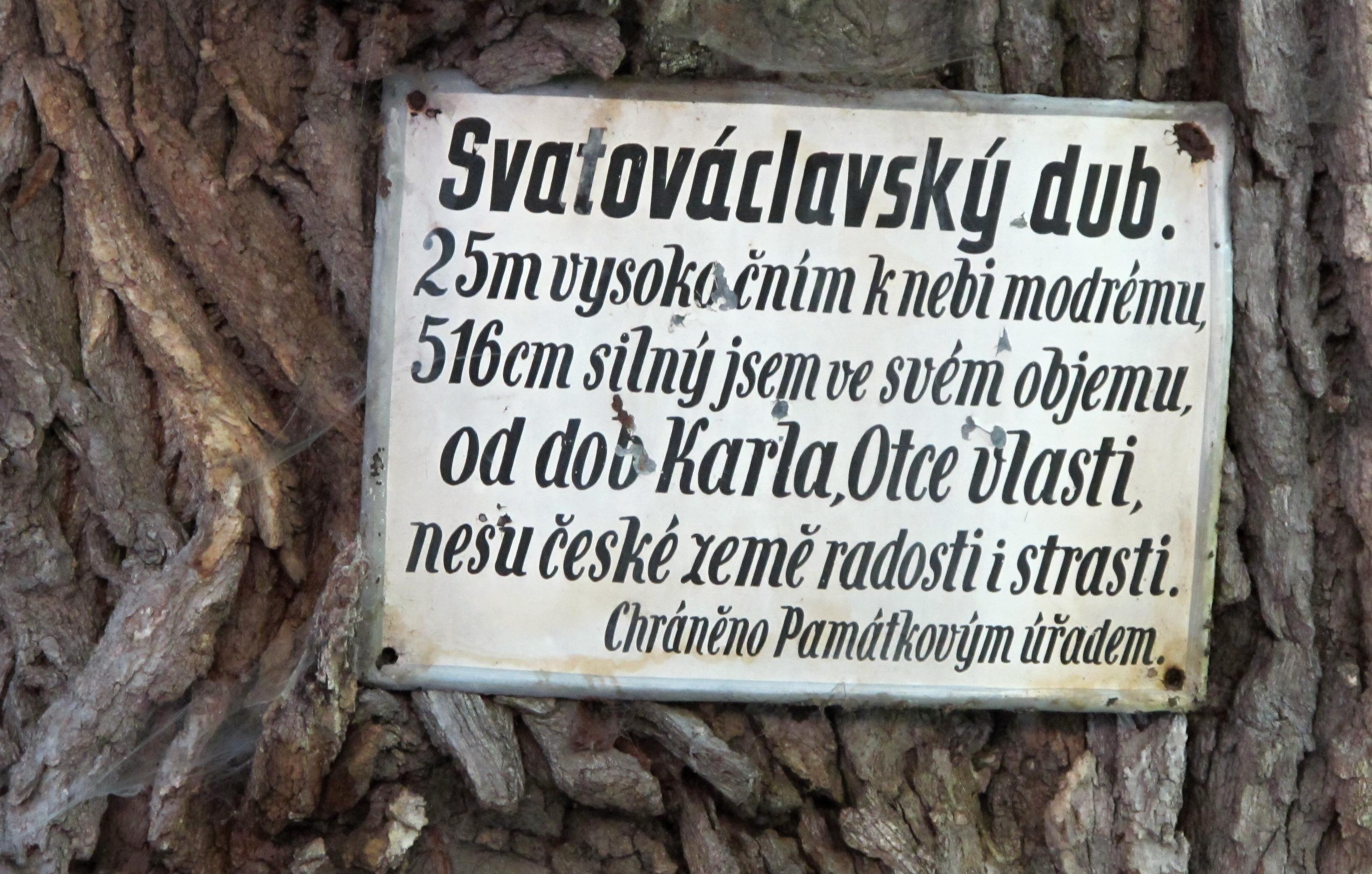 Famous tree in Příbram